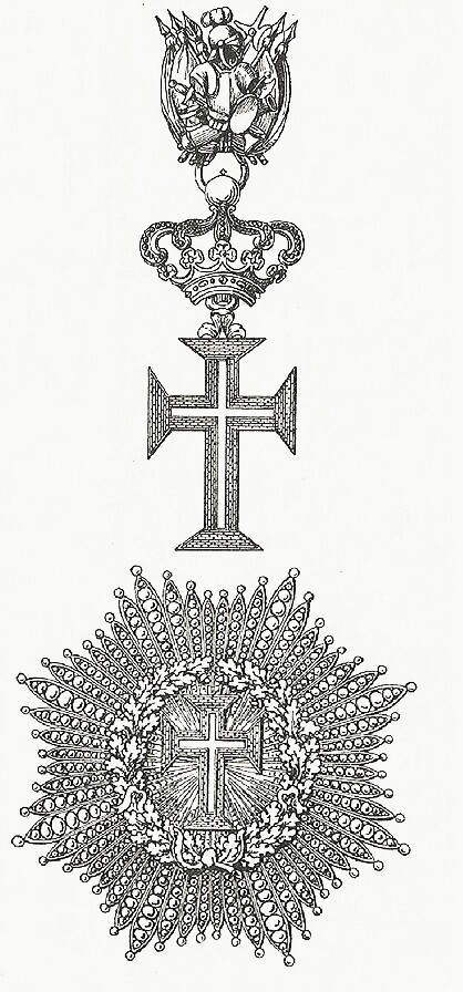 Cross and star of the Order of Christ (Holy See)